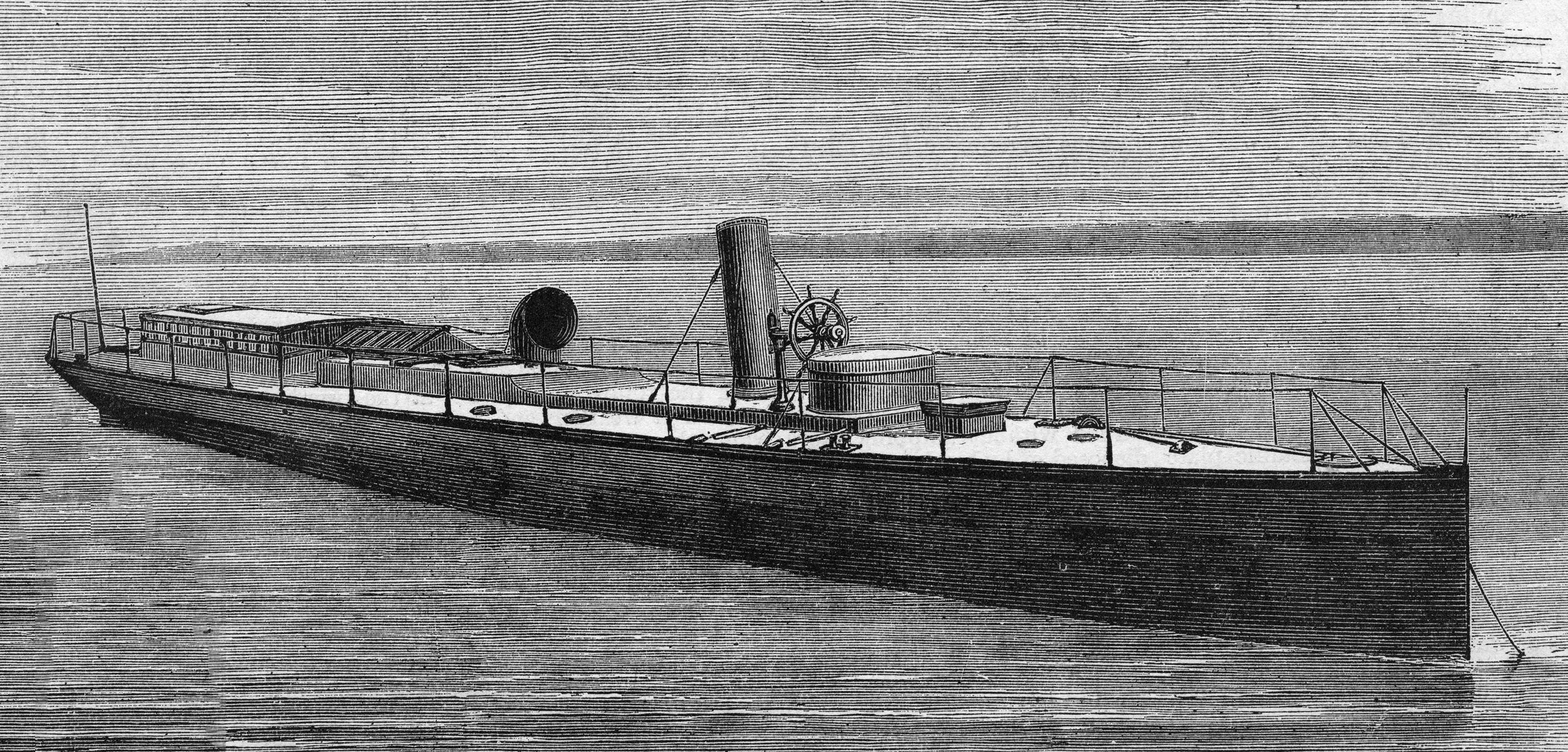 A illustration of HMS Lightning, a Torpedo boat in 1877.